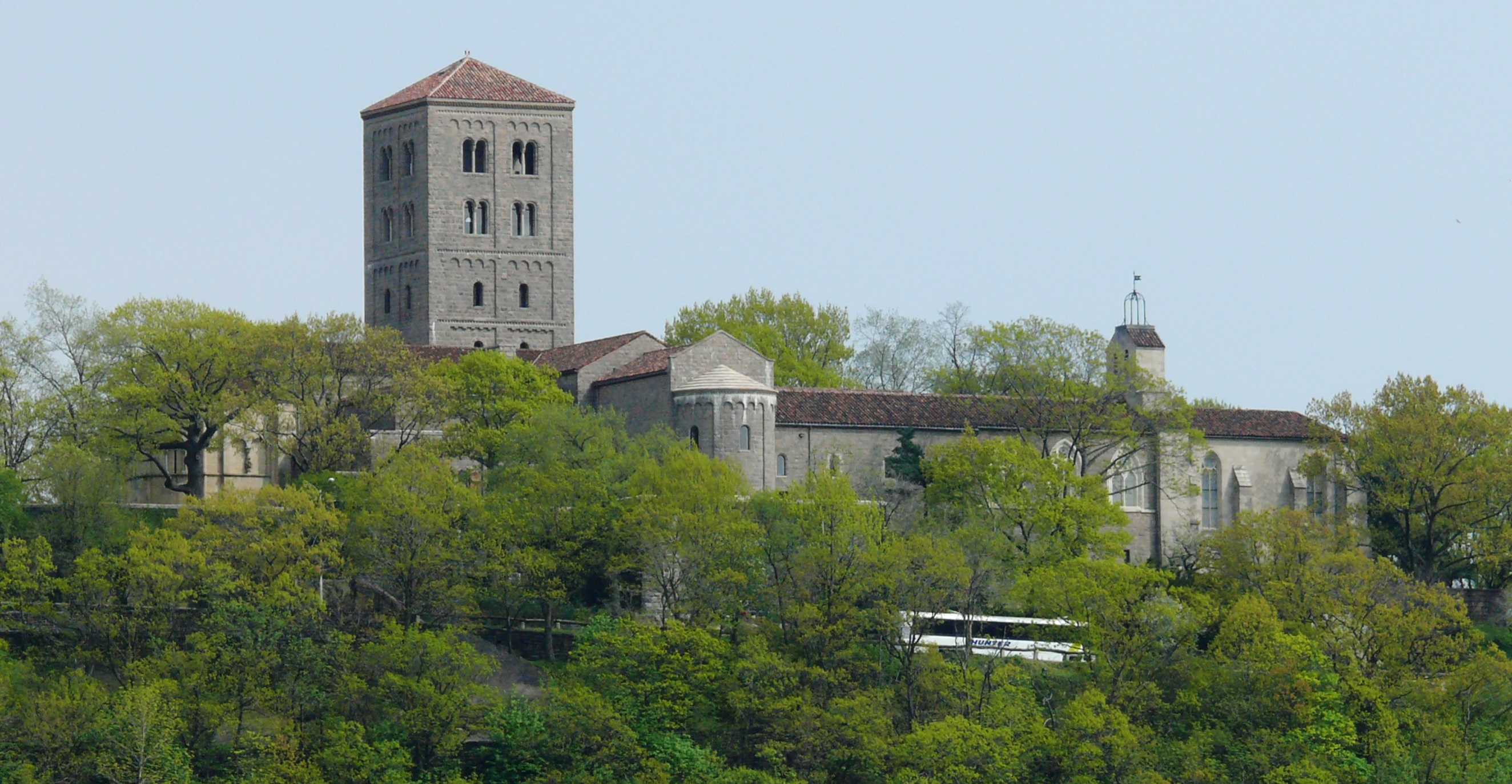 The Closters NY, view from Hudson River